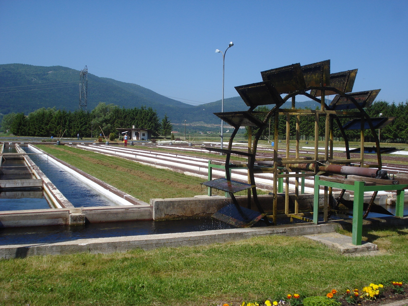 Gacka river valley (Croatia) - trout fish farm in SinacHrvatski: Gacko polje (Hrvatska) - ribogojilište pastrvi u Sincu